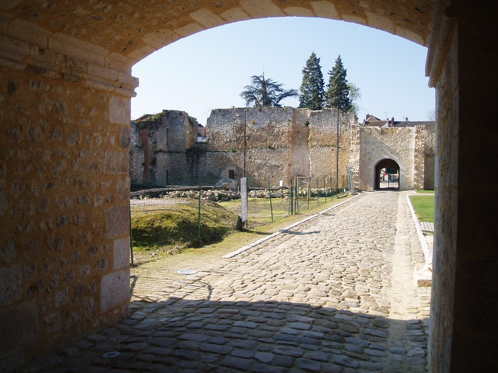 Château de Brie-Comte-Robert, from the north entry